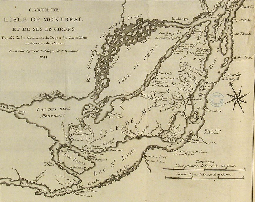 Map of the island of Montréal and surrounding area